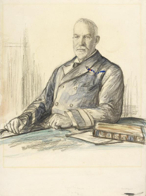 Rear-admiral Robert John Prendergast image: a half length portrait of the bearded Rear Admiral Robert Prendergast in Royal Navy uniform, sitting behind a desk with a bound volume and some papers on the surface. He wears a signet ring on the little finger of his left hand.